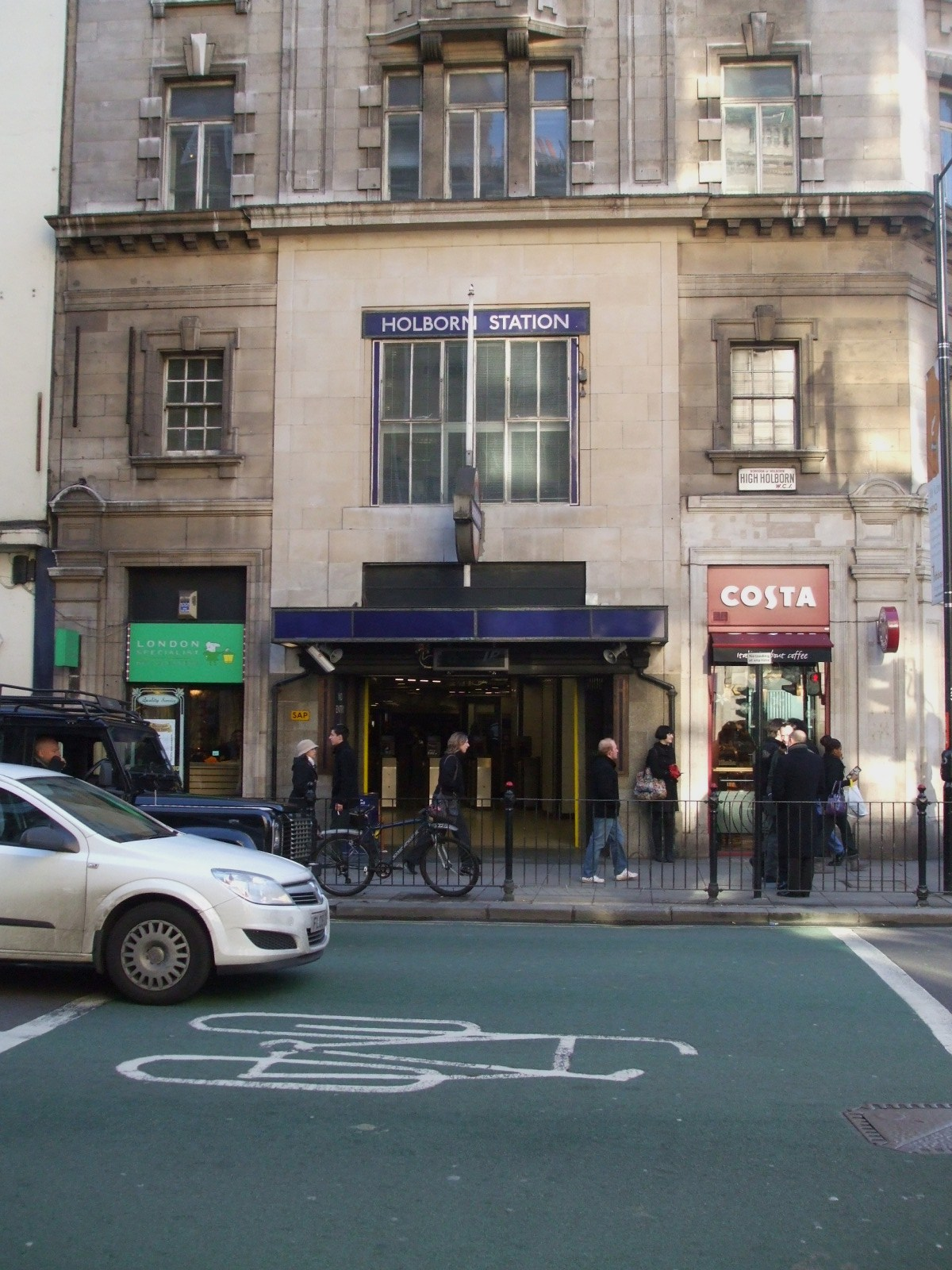 Holborn tube station northern entrance